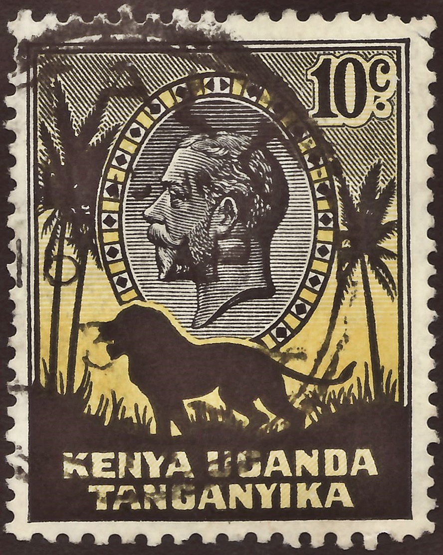 Stamp of British East Africa - KUT ("KUT" = the British colony "Kenya", the British protectorate "Uganda", and the British mandate area "Tanganyika"); 1935; definitive stamp of the issue "Pictorals - King George V of the United Kingdom"; stamp drawing with a cameo portrait of King George V of the United Kingdom (without crown) with view to left in oval over shadow drawing of a lion ("Panthera leo") in savannah grass landscape flanked by palm trees (left: two trees, right: one tree); stamp postmarked Stamp: Michel: No. 33; Yvert et Tellier: No. 35; Scott: No. 48 Color: yellow / black Watermark: British East Africa, No. 4 (= Great Britain No. 4) (multiple Saint Edward's crown over convoluted charcters "CA") Nominal value: 10 C. (Cents) Postage validity: from 1 May 1935 until ? Stamp picture size (printed area): 24.5 x 30.5 mm